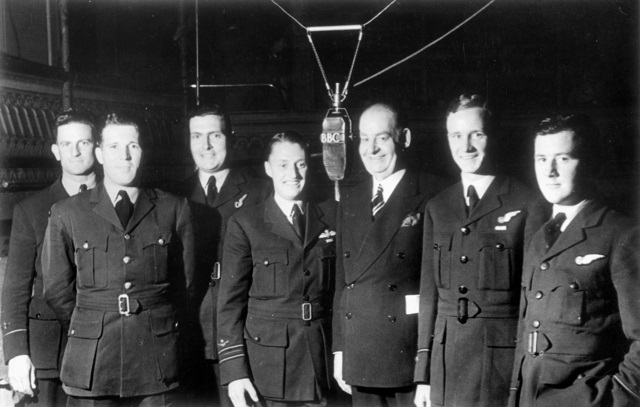 A group of RAAF airmen on the set of the BBC's "Anzac Hour" programme broadcast from London. Included in the picture is Squadron Leader James Catanach (centre), who was executed by the Gestapo after the Great Escape in 1944.